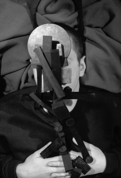 This photo was taken by the artist, Lenore Malen, as imagery for her 2005 artist book "The New Society for Universal Harmony," published by Granary Books.